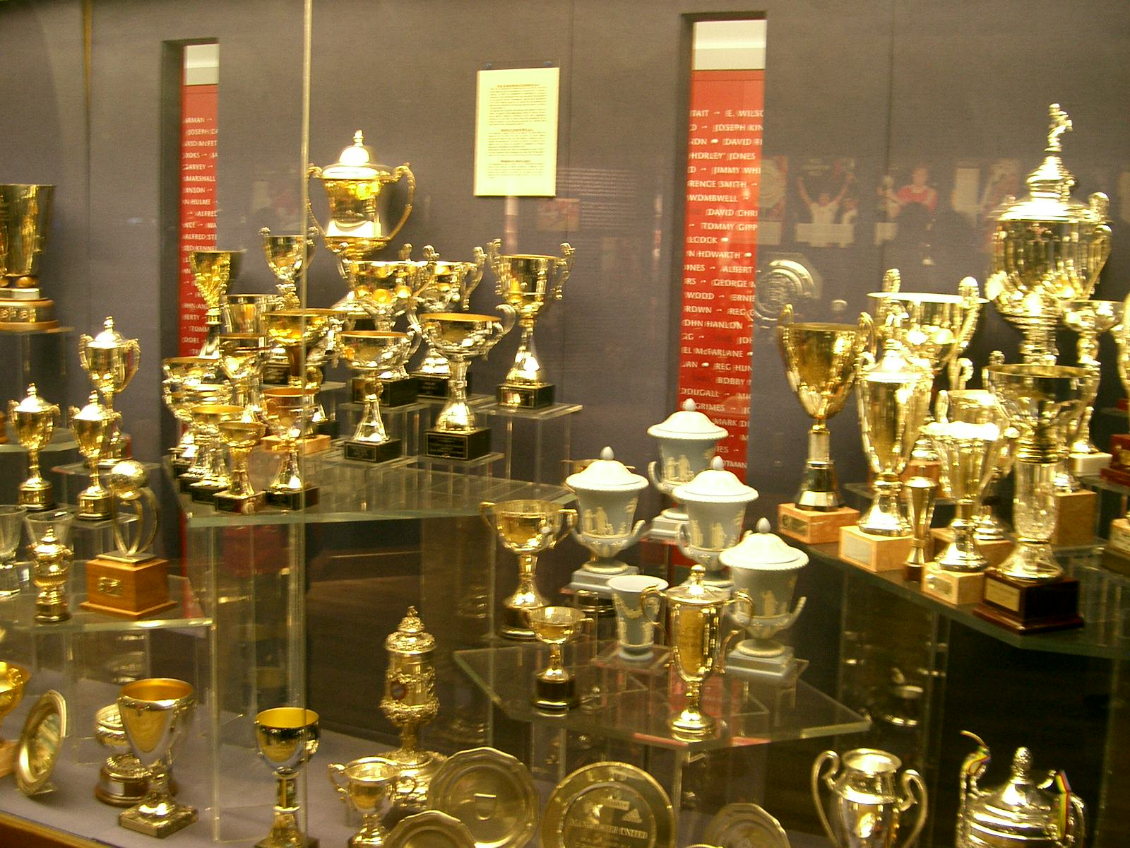 Plenty of Silverware on Display in the Manchester United Museum